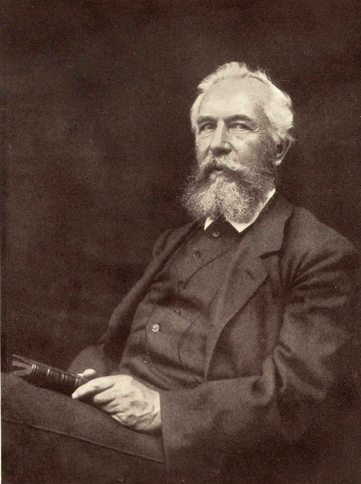 Ernst Heinrich Philipp August Haeckel (February 16, 1834 – August 9, 1919)